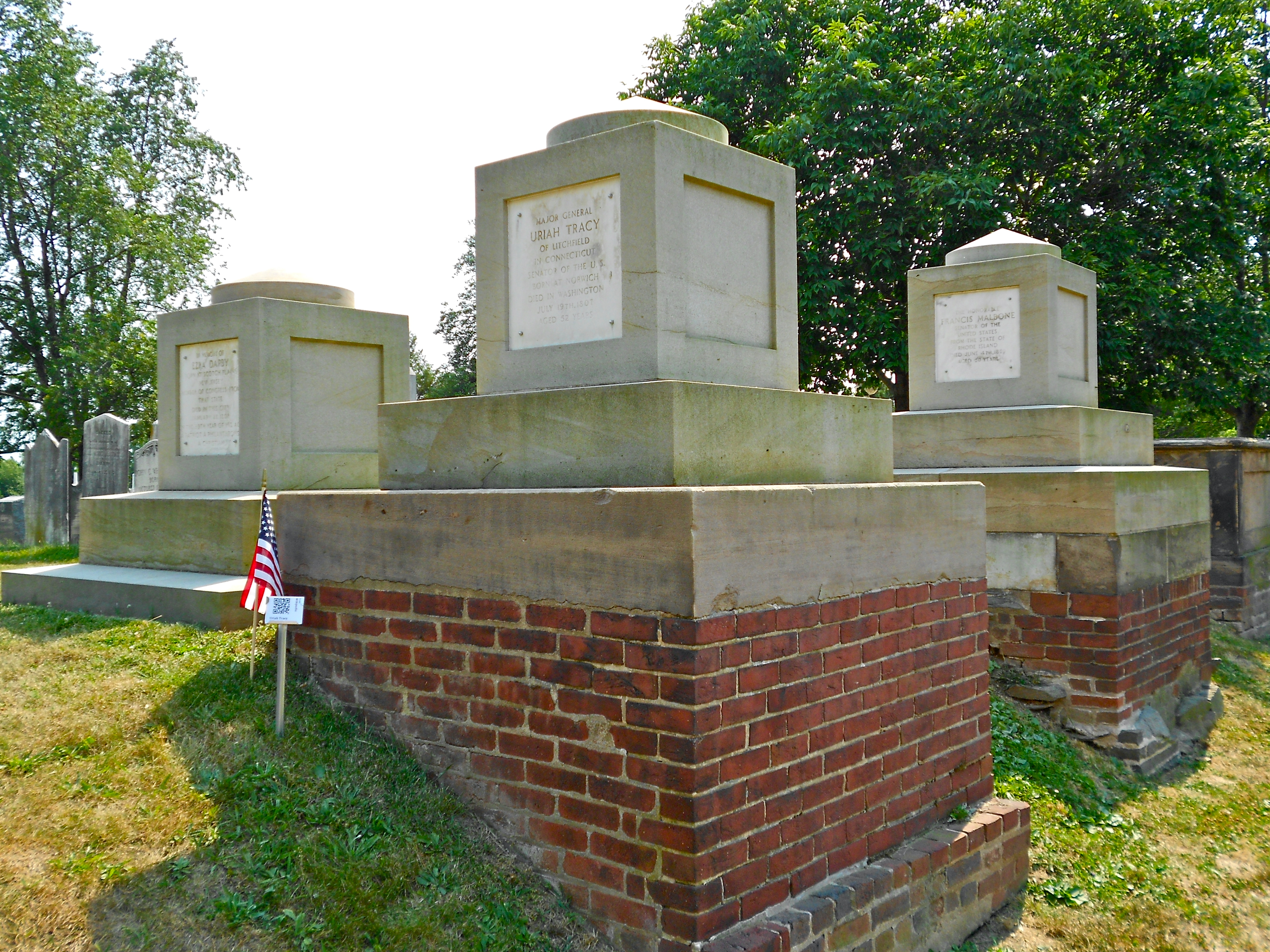 Cenotaph of Uriah Tracey in the Congressional Cemetery in Washington, DC. The Cemetery is a National Historic Landmark Oldest (?) cenotaph in the Cemetery.